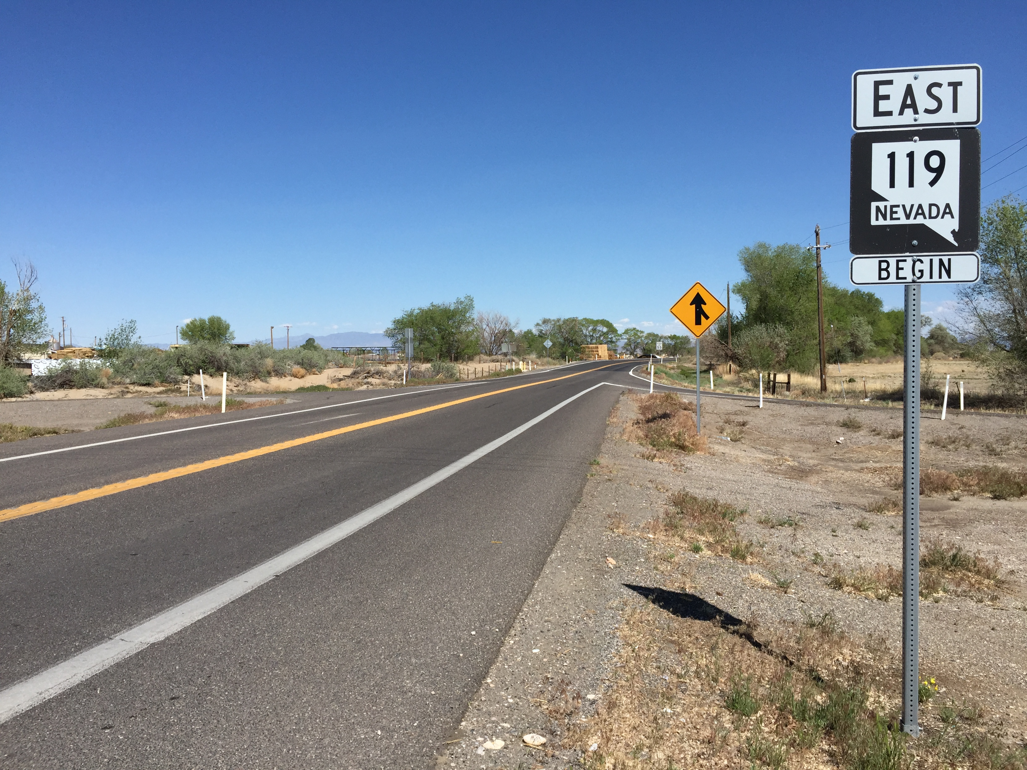 View east from the west end of Nevada State Route 119 (Berney Road) in Churchill County, Nevada